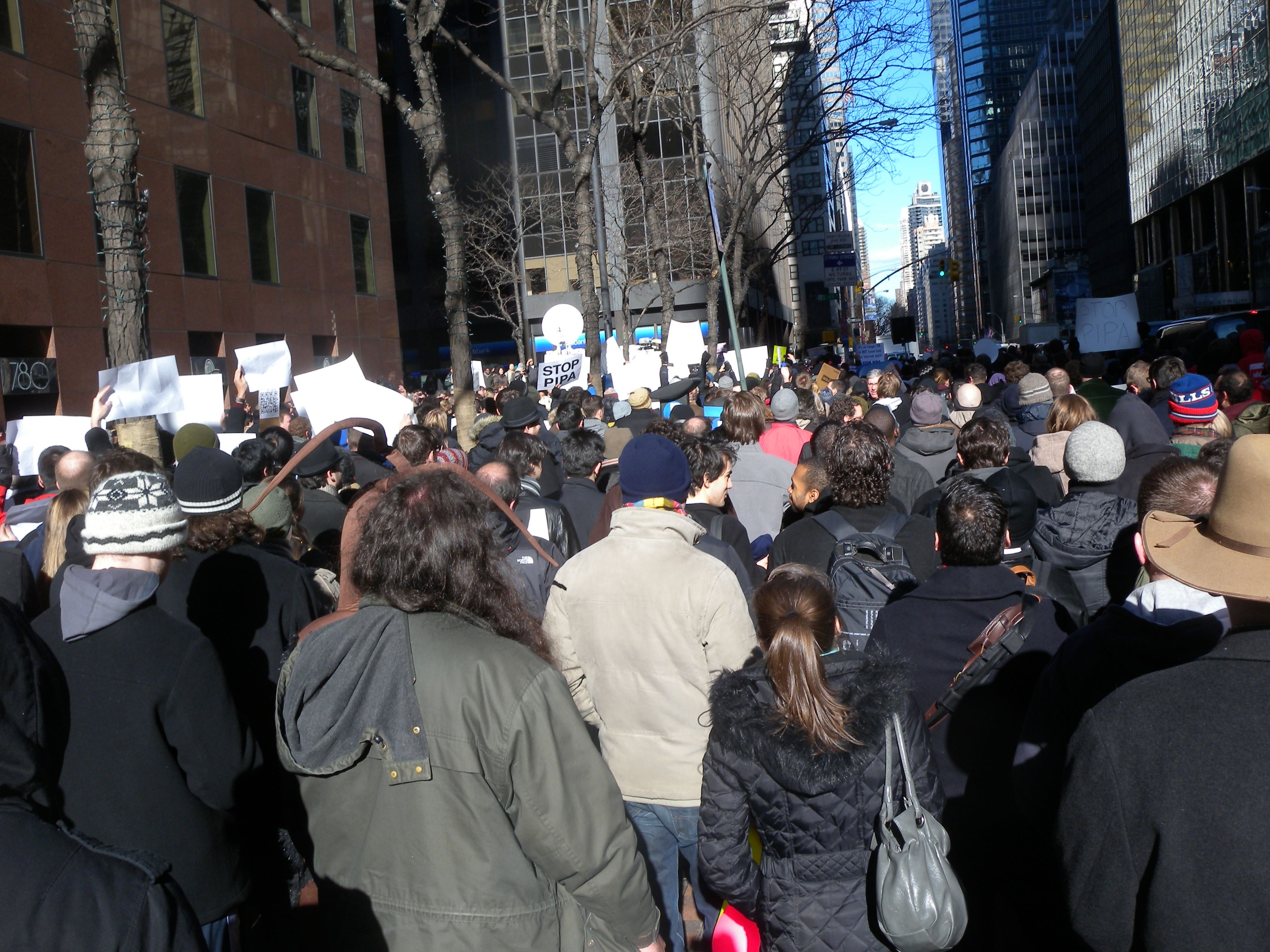 Looking north at NY Tech Meetup rally in front of 780 Third Avenue office building.